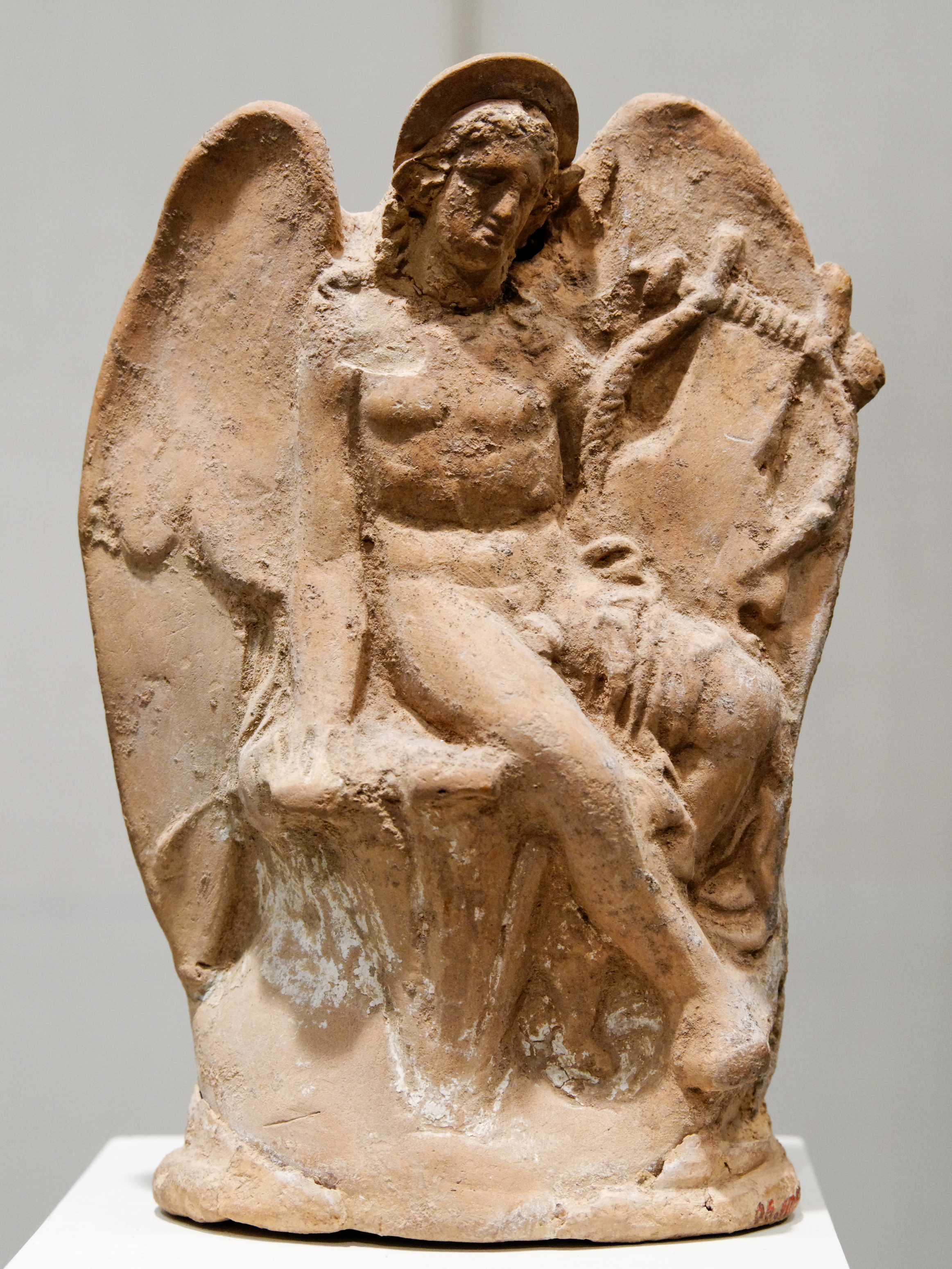 Eros holding a lyre. Greek (probably Attic) figurine of the Hellenistic period.